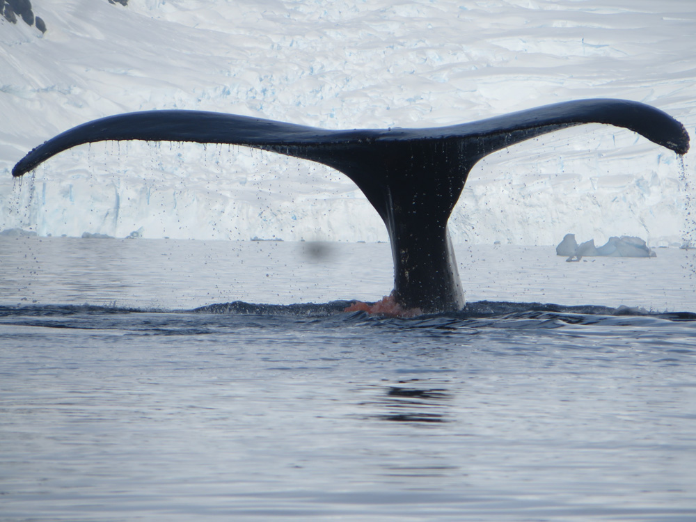 A humpback whale in Wilhelmina Bay